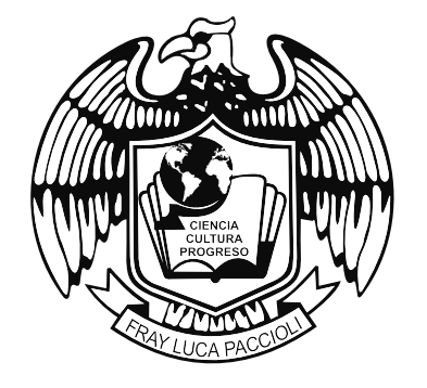 Fray Luca Paccioli University Logo. UFLP-1979.